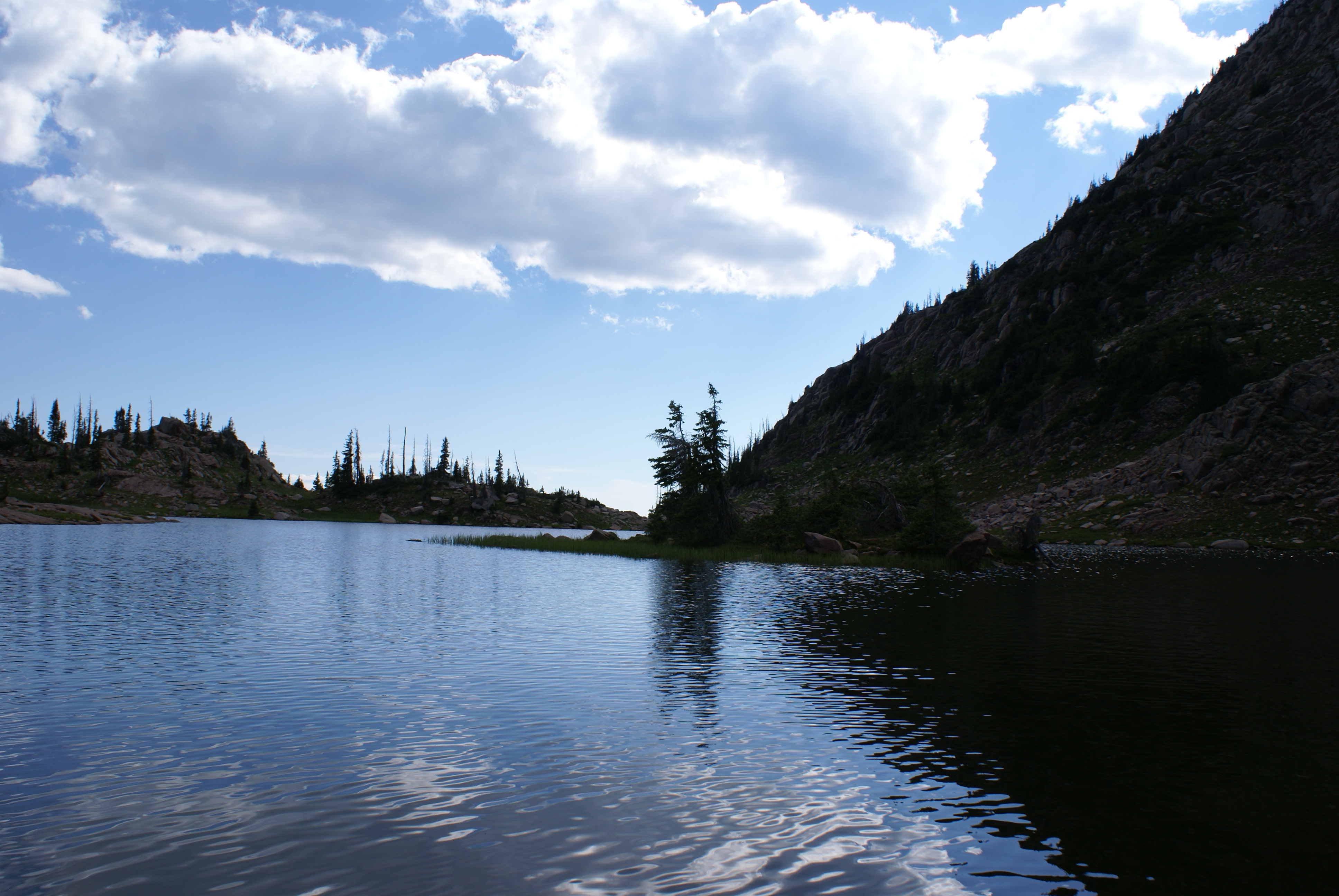 Lake of the Crags in Mt. Zirkel Wilderness, Park Range, Northern Colorado